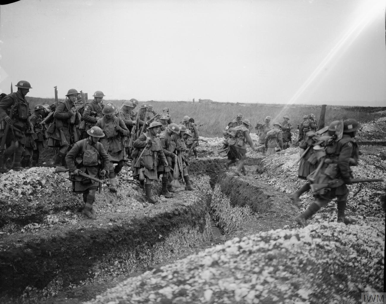 The Battle of Cambrai, November-december 1917 Troops of the 4th Battalion, Gordon Highlanders (51st Division) crossing a trench. Ribecourt, 20 November, 1917.